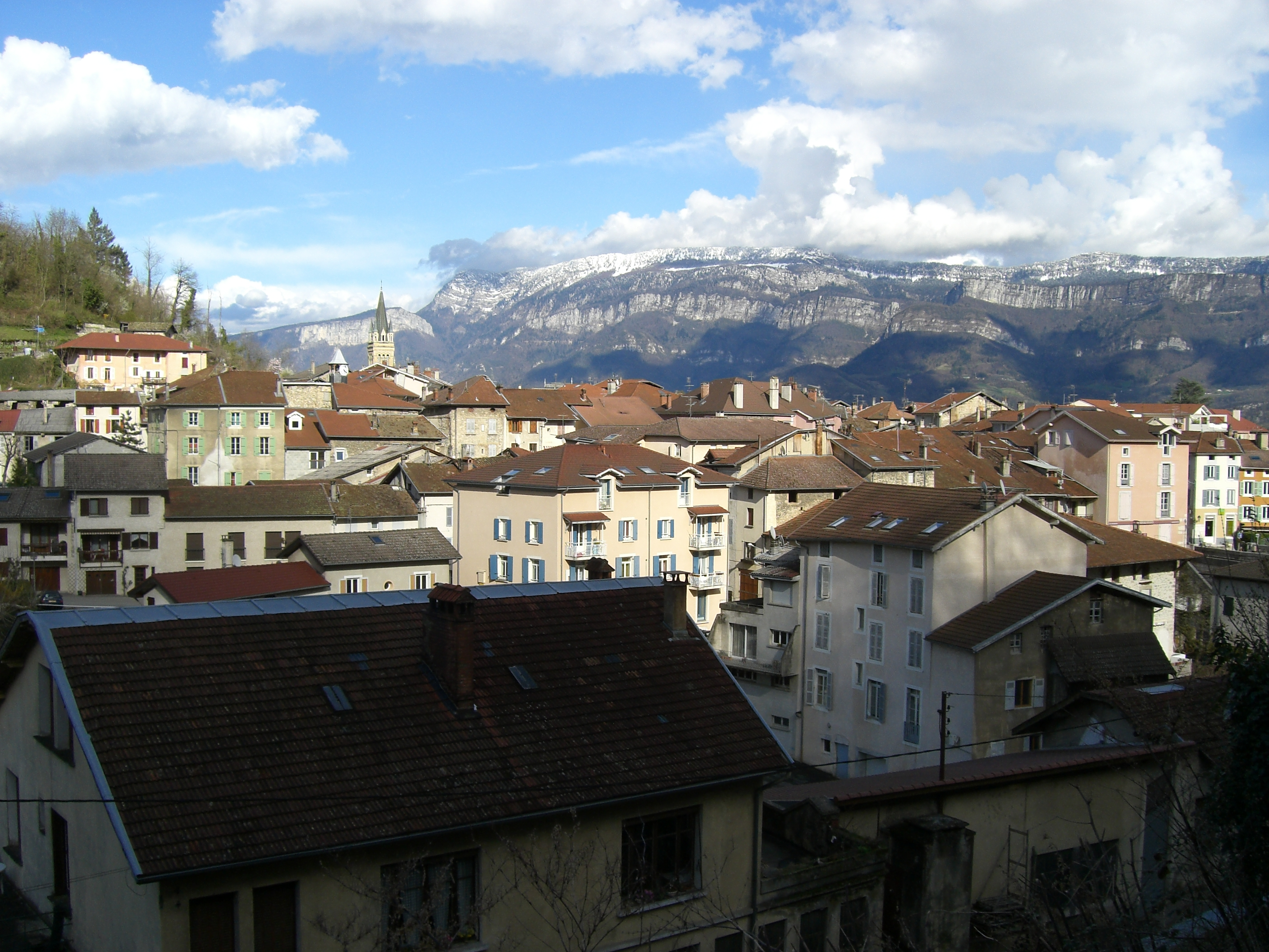 Picture of Vinay